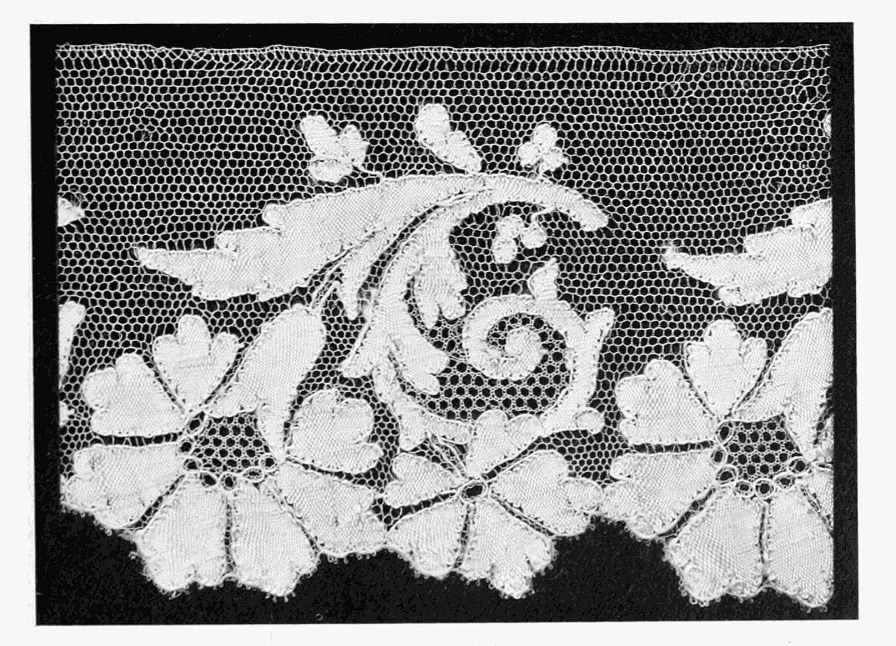 "Real Spanish."